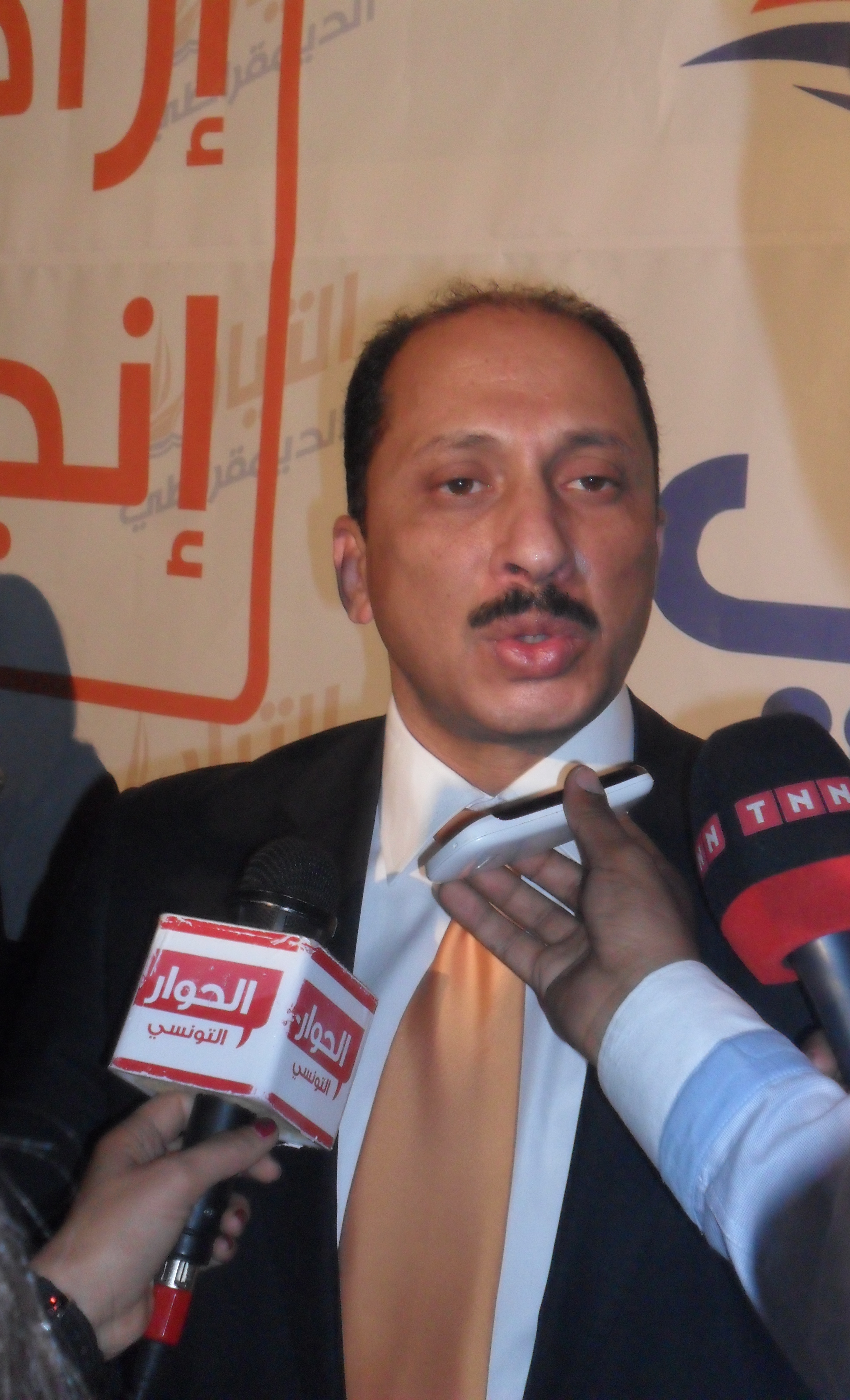 Mohamed Abbou (1966- ), Tunisian politician and lawyer